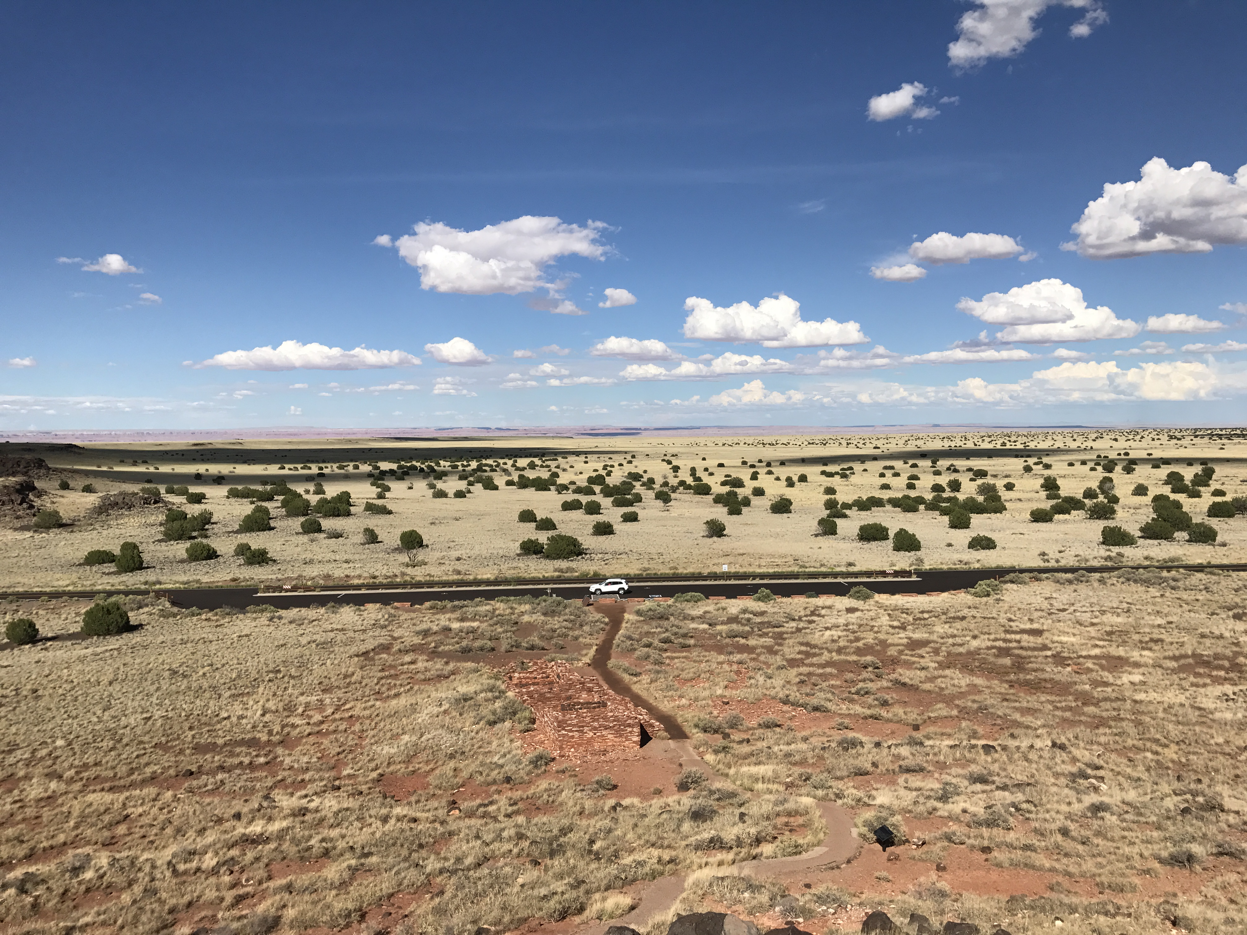 View from atop Wupatki National Monument, showing miles of flat grasslands